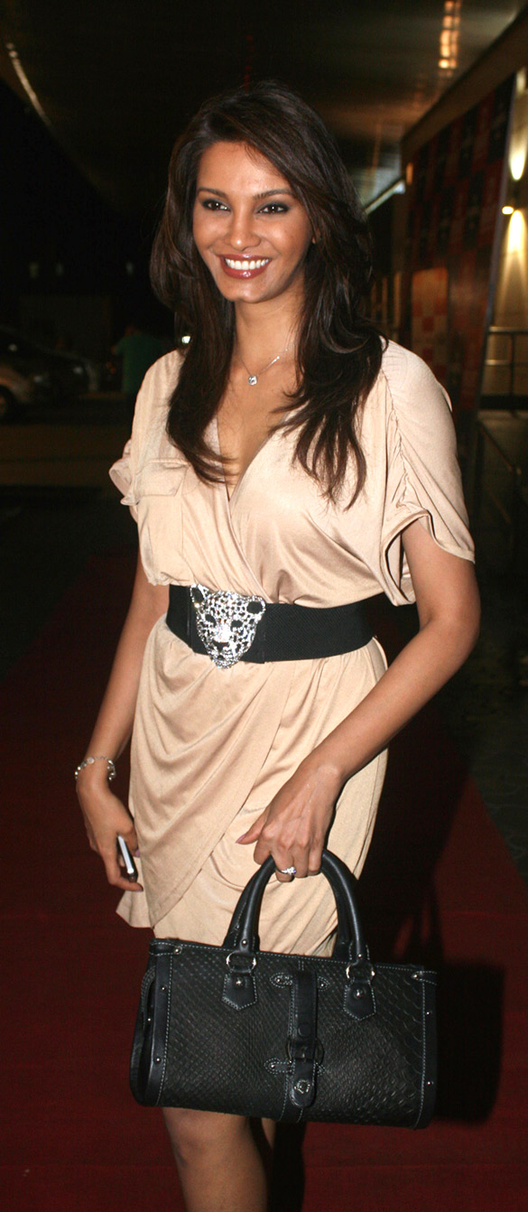 Diana hayden housefull 2